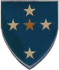 SADF era Regiment Natalia emblem